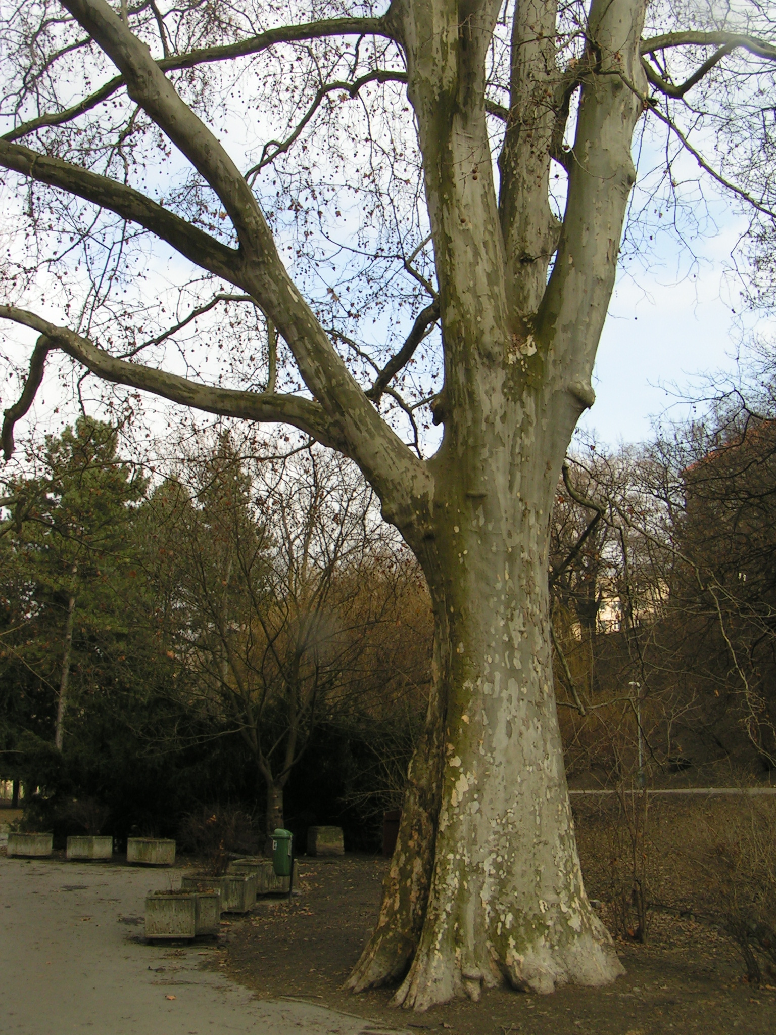 Prague, Nusle, Jezerka Park - a famous platanus × hispanica, a trunk